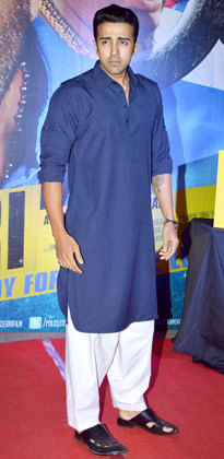 Nilesh sahay at charity screening of Policegiri